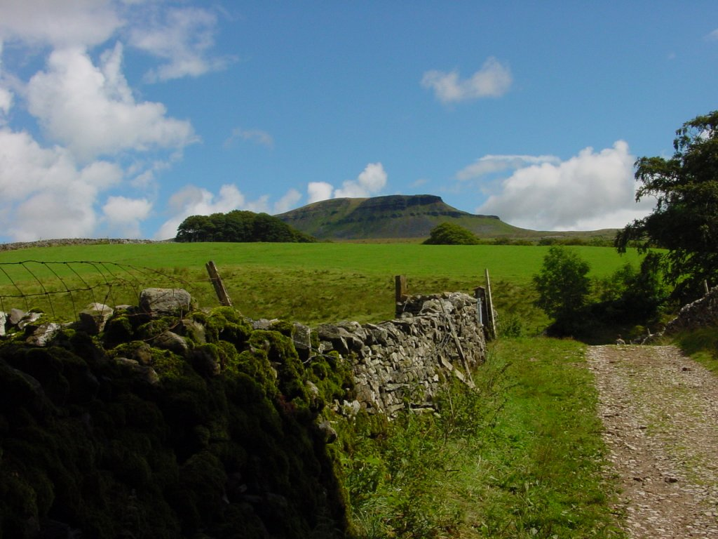 A path leading to Pen-y-Ghent (694 m), Yorkshire Dales national park.